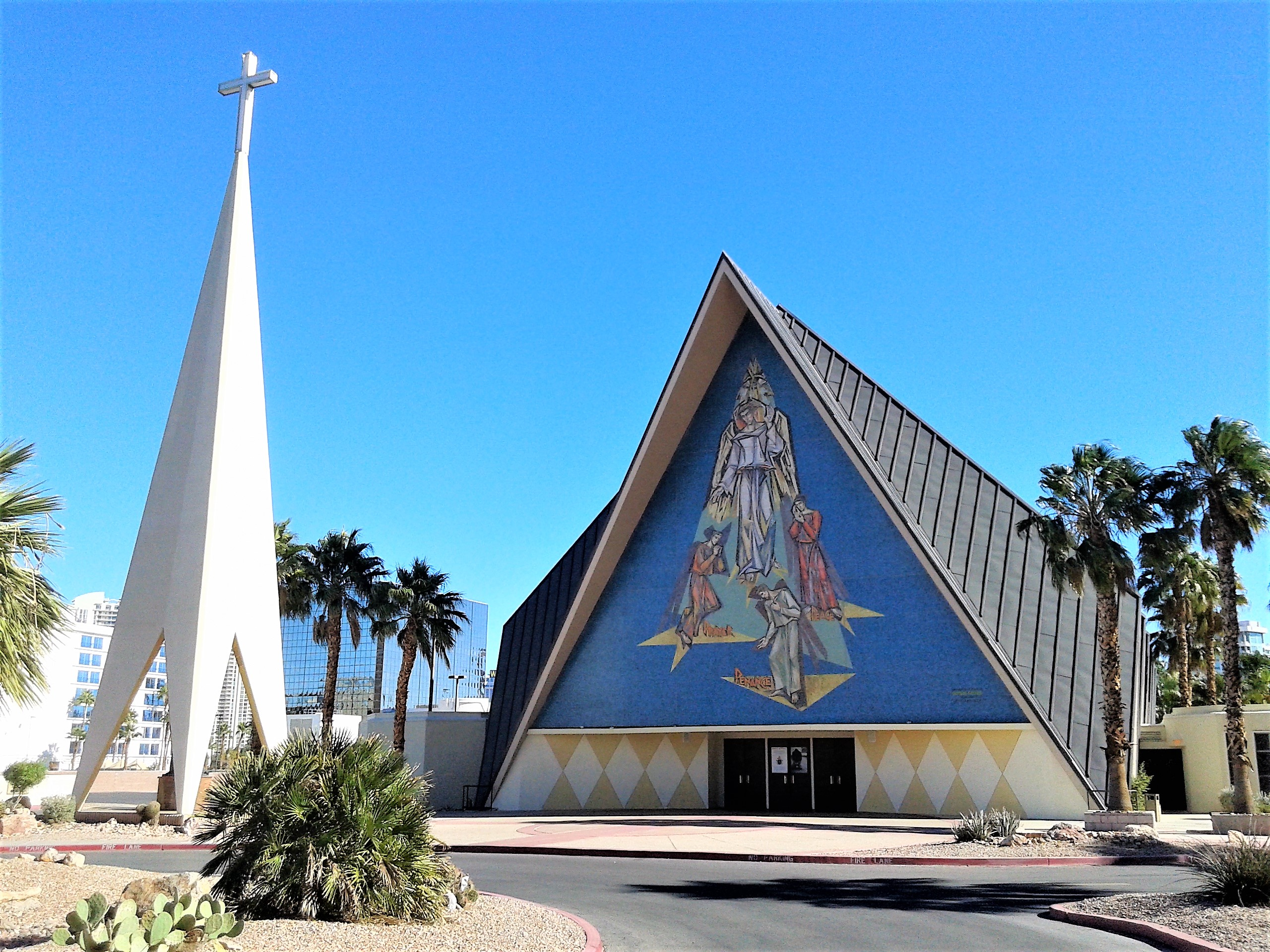 Guardian Angel Cathedral in Las Vegas, Nevada.